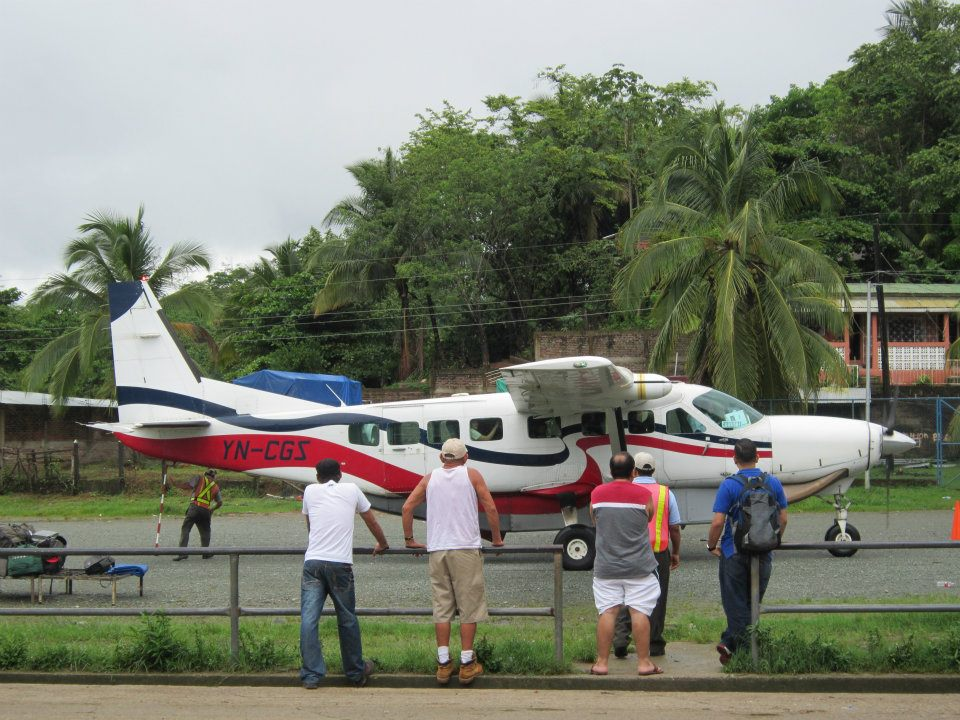 plane landed on airstrip. taken by meaghan gruber.